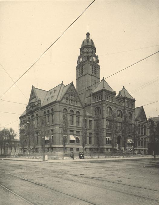 The old Jefferson County Court House in Birmingham, Alabama